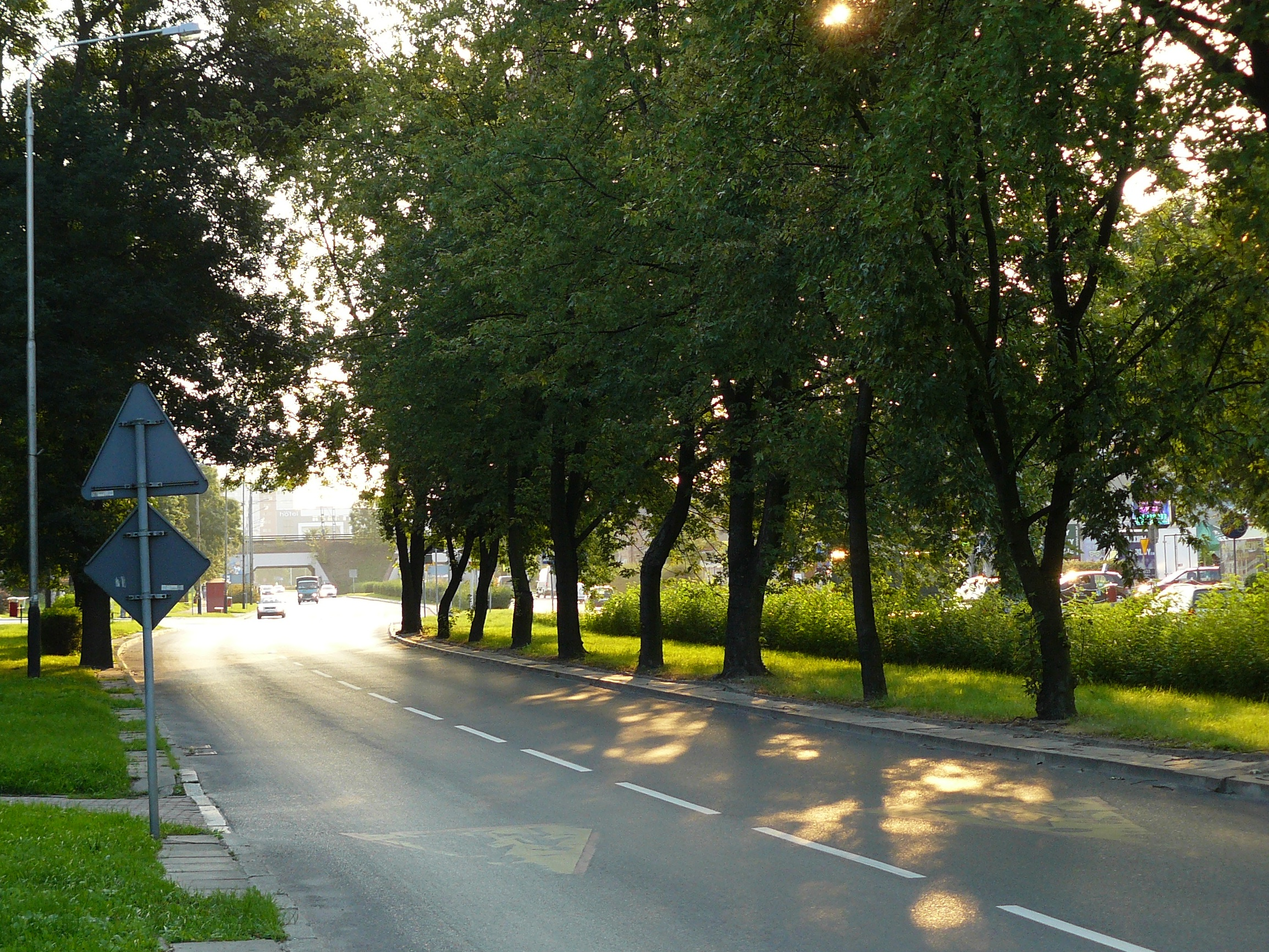 Piłsudskiego street in Piotrkow Trybunalski.